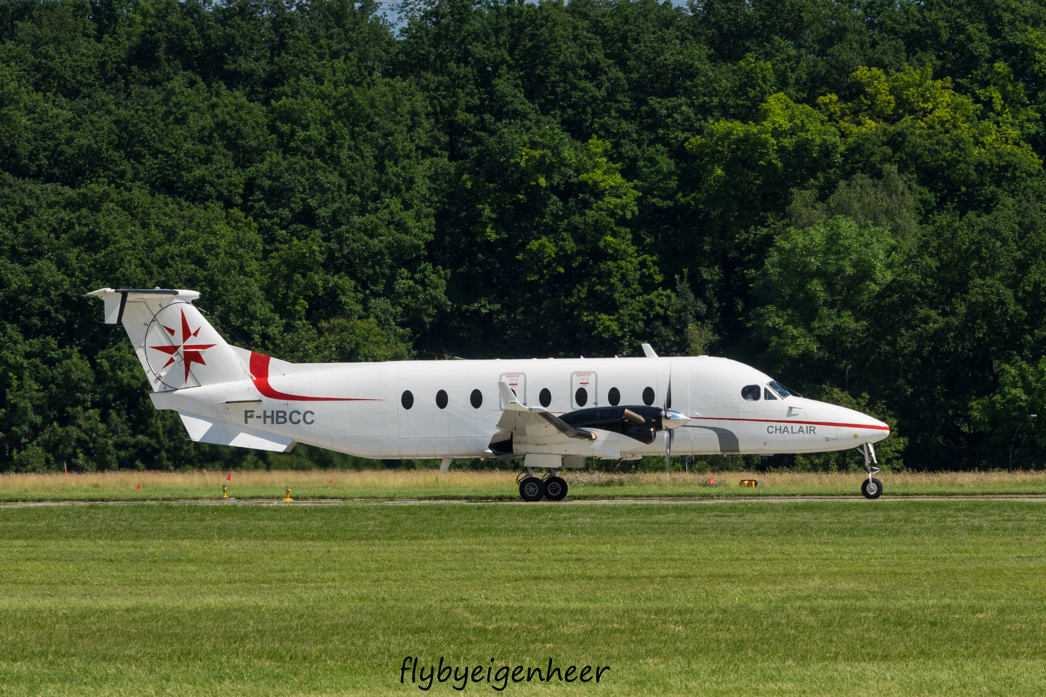 GVA 01.07.2016